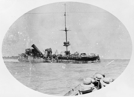 Photograph showing a broadside view of the wrecked German raider Emden